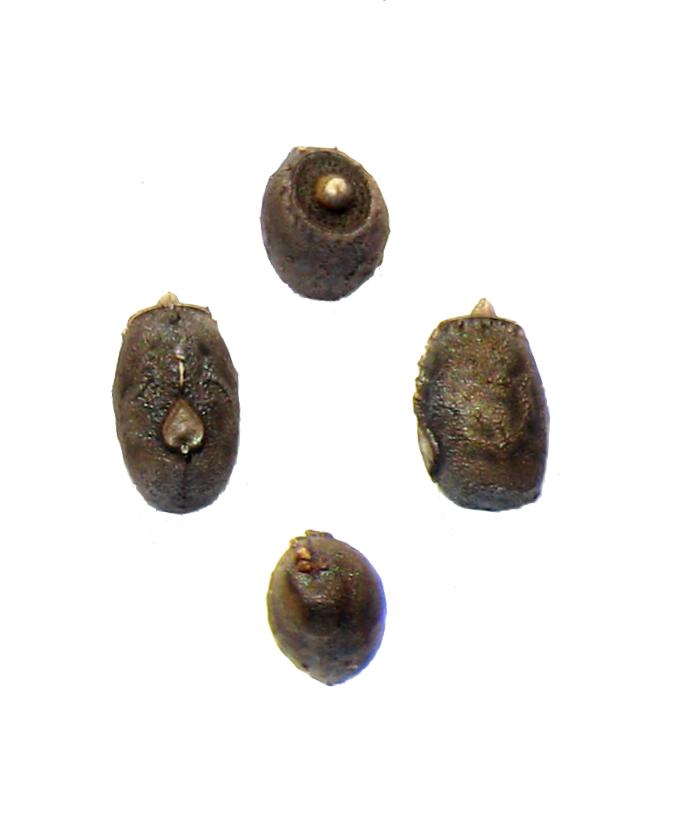 Eggs of Reunion Stick Insect (Rhaphiderus spinigerus), left dorsal view, right lateral view